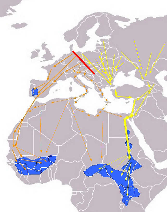 African and European migration of the black stork (Ciconia nigra).